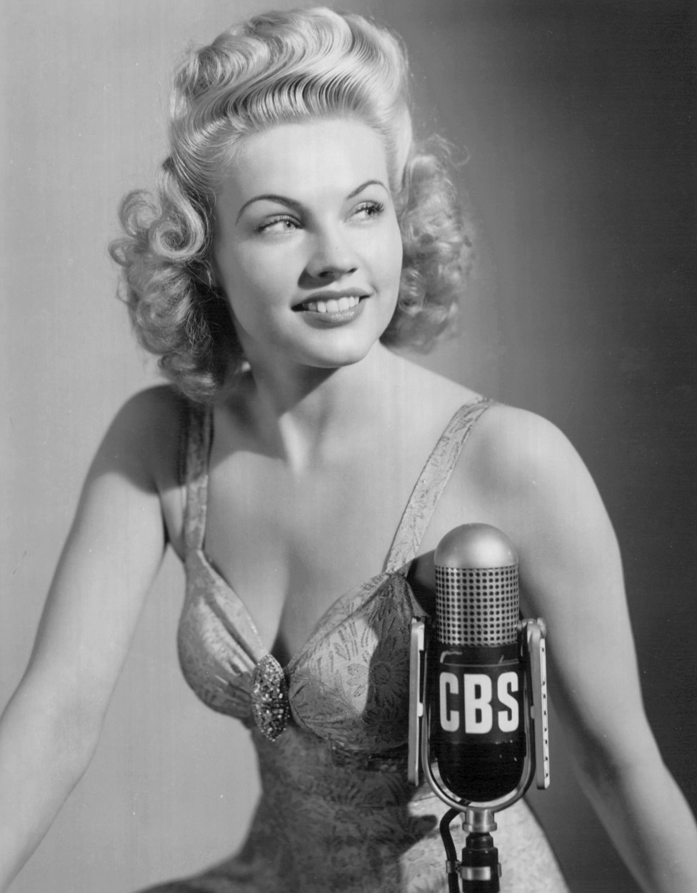 Photo of singer-actress Gale Robbins.